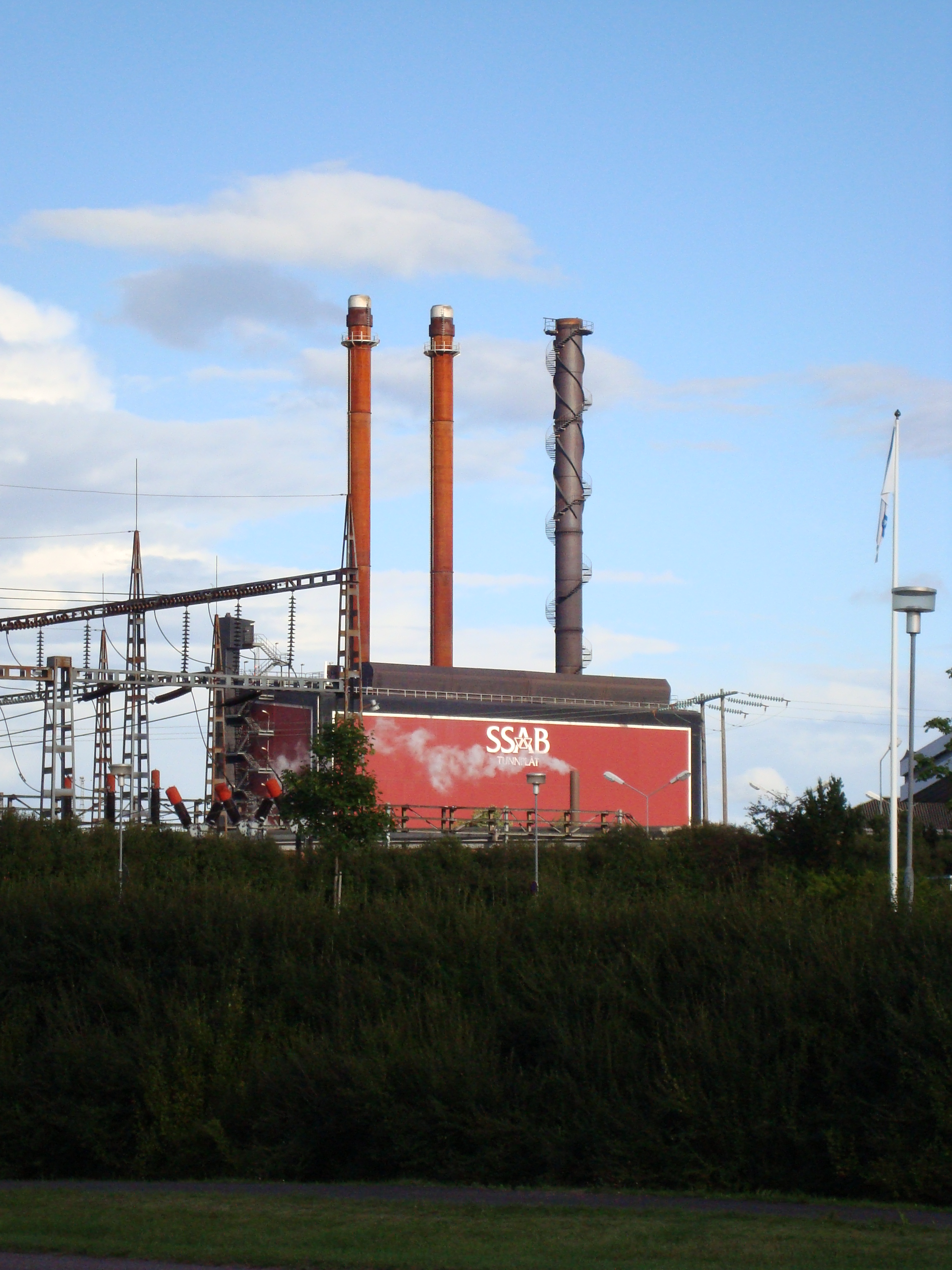 SSAB Steel mill in Borlänge, Sweden